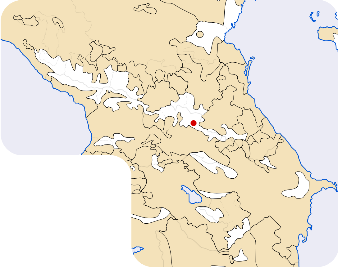 Location map of the Kist people.